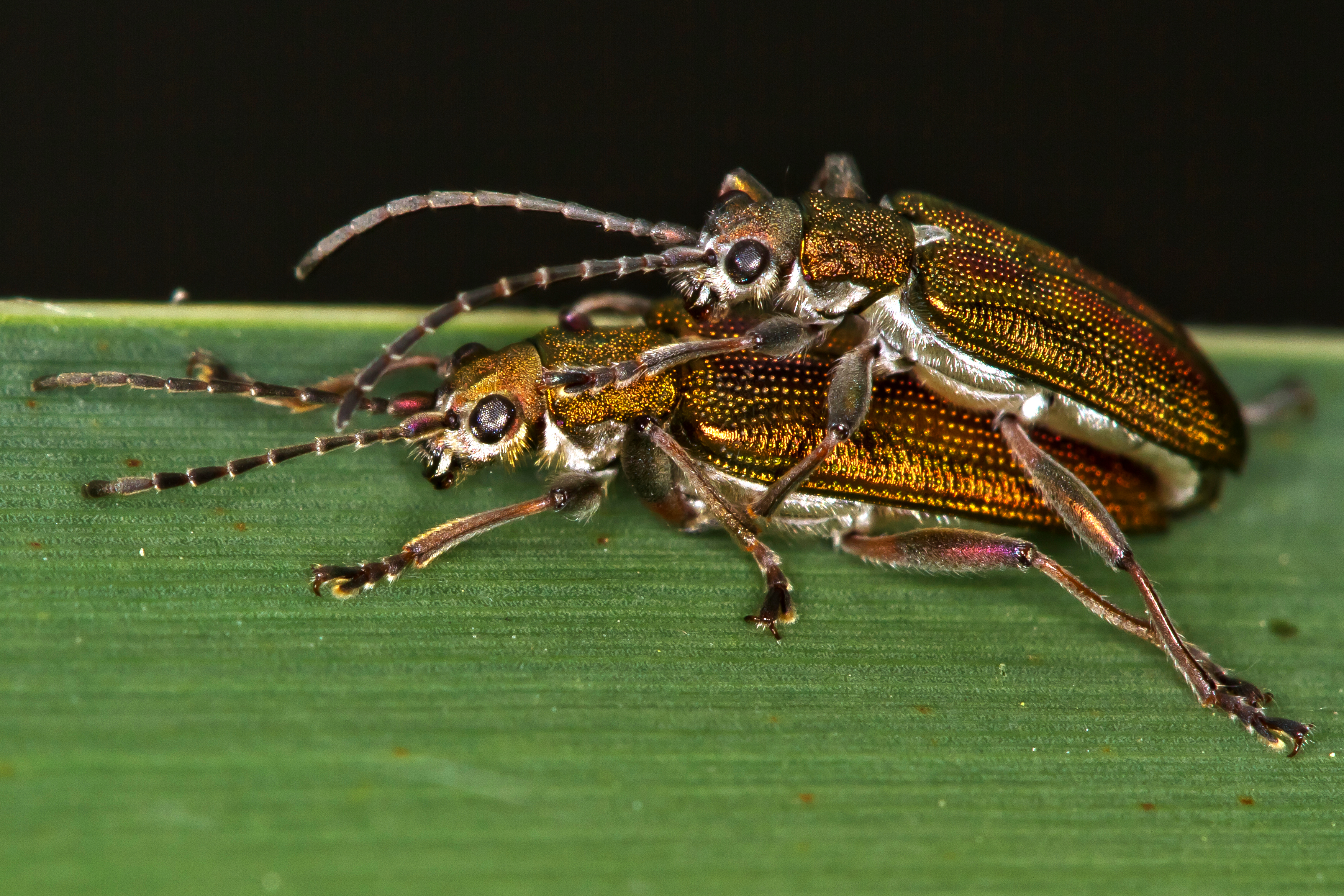 Two mating specimen of Plateumaris sericea found near a pond on a Iris pseudacorus leaf in the Land of Saxony, Germany.